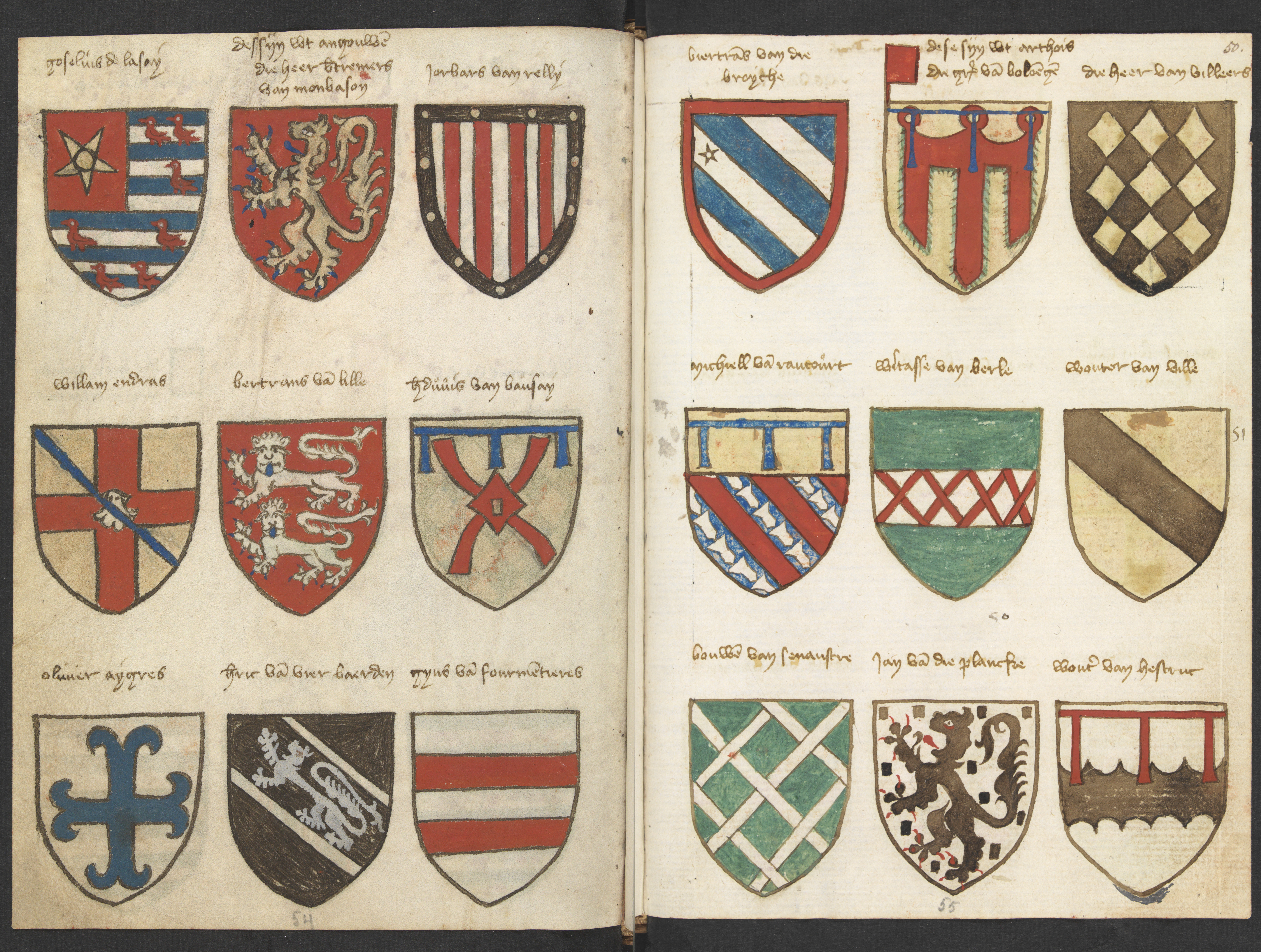 Lefthand side folio 049v; righthand side folio 050r from the Beyeren armorial / Wapenboek Beyeren